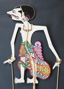 Baktak, wayang kulit from the wayang play "Serat Menak (Sasak)". Baktak, is his nickname and Patih Bestak, his official name. He is prime minister (patih) of the kingdom Medayin under the reign of king Nursewan (raja Nursewan).